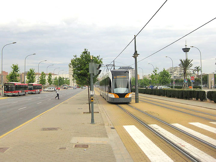 View of Tarongers Avenue, Valencia, Spain. Vista de l'avinguda dels Tarongers, València, País Valencià.